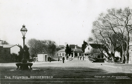 A street scene of Main Road Rondebosch, Cape Town around the turn of the 20th century. The recently installed Rondebosch Fountain can be seen to the left in the foreground.